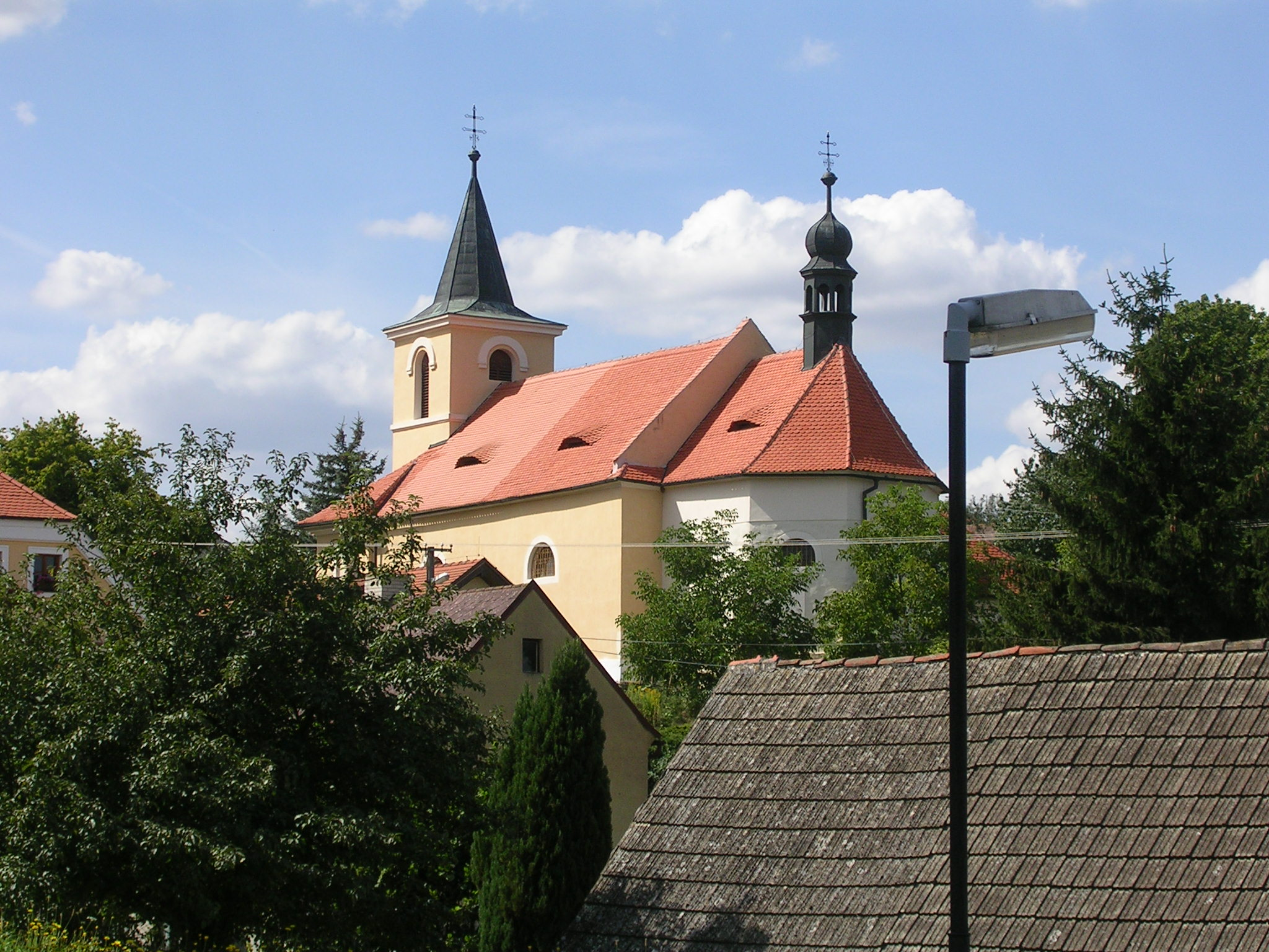 Nezabudice, Rakovník District, Central Bohemian Region, the Czech Republic. Saint Lawrence Church.